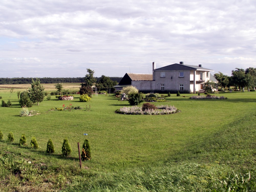 Rėkyva, Šiauliai district, Lithuania